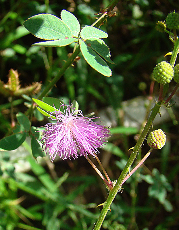 With thorns and with leaves in groups of six, this species is widespread in the Neotropics. Photo from Isla Bastimentos, Panama. In context at